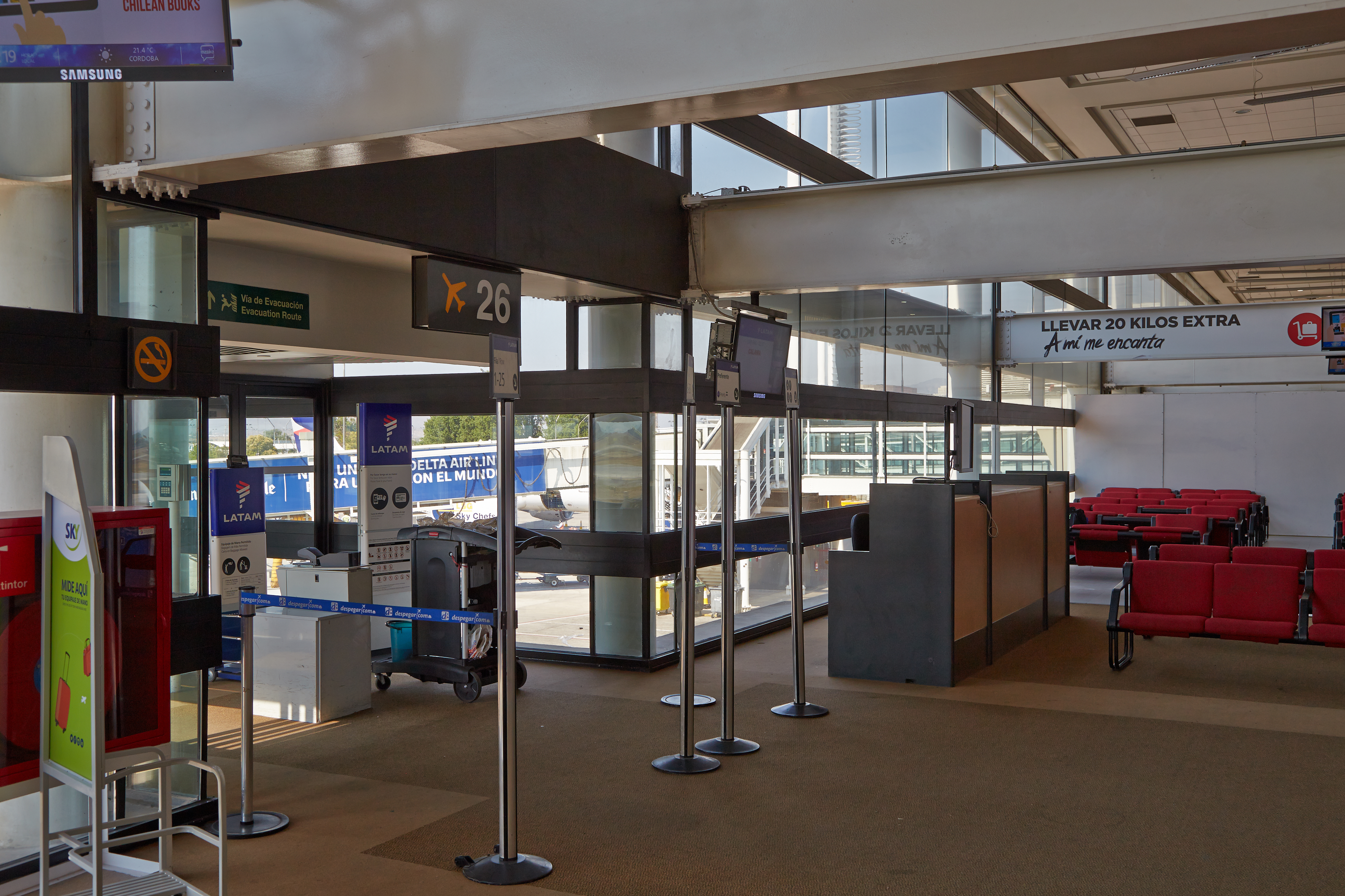 Arturo Merino Benítez International Airport